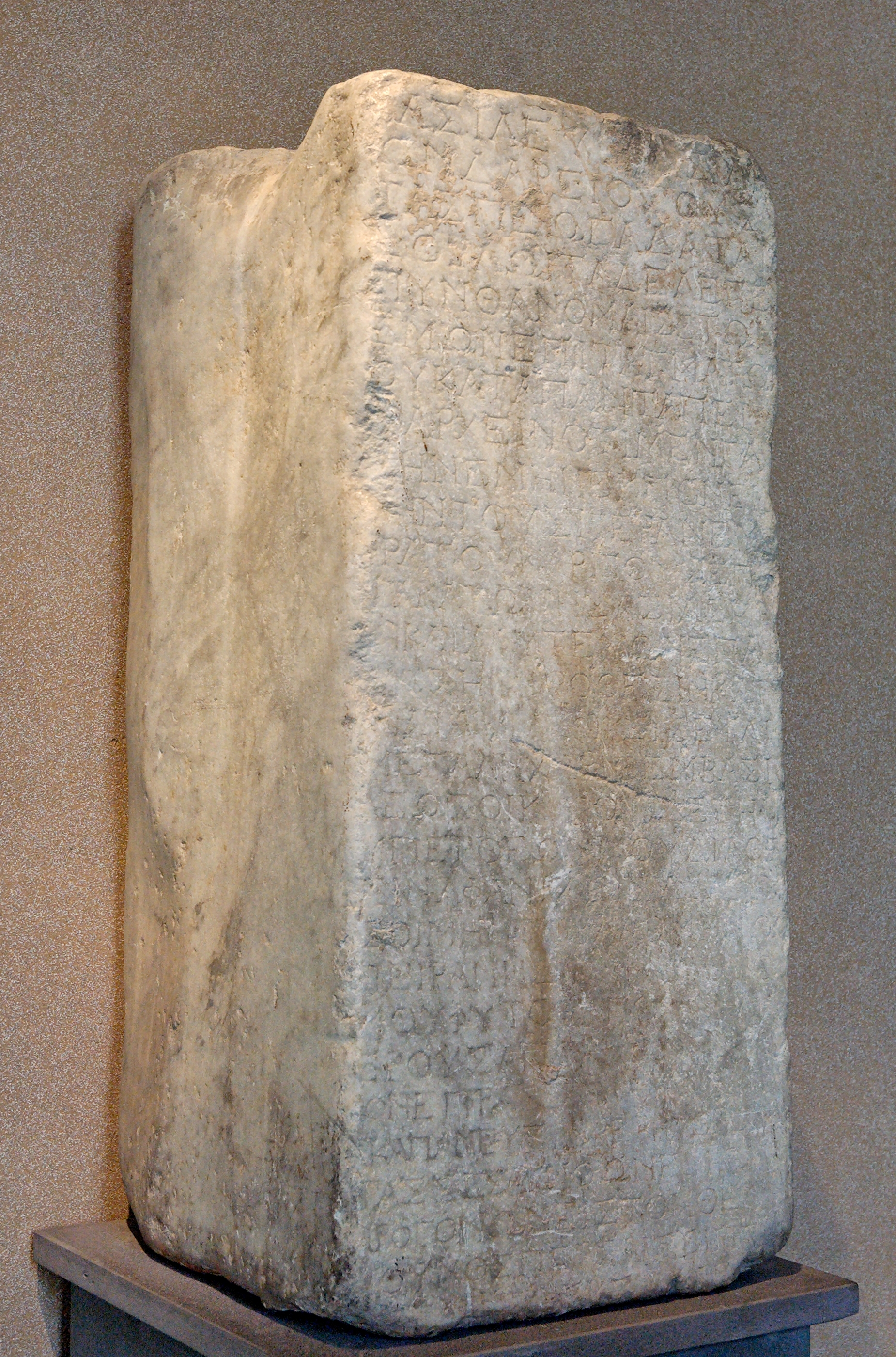 Letter from Darius the Great to Gadatas, satrap in Ionia, about his management of a paradise (royal garden). Greek copy made during the Roman Era, found near Magnesia ad Mæandrum.